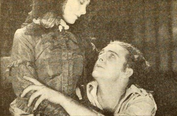 Still from the American silent film Forever (1921) with Elsie Ferguson and Wallace Reid, on page 58 of the October 1921 Photoplay.